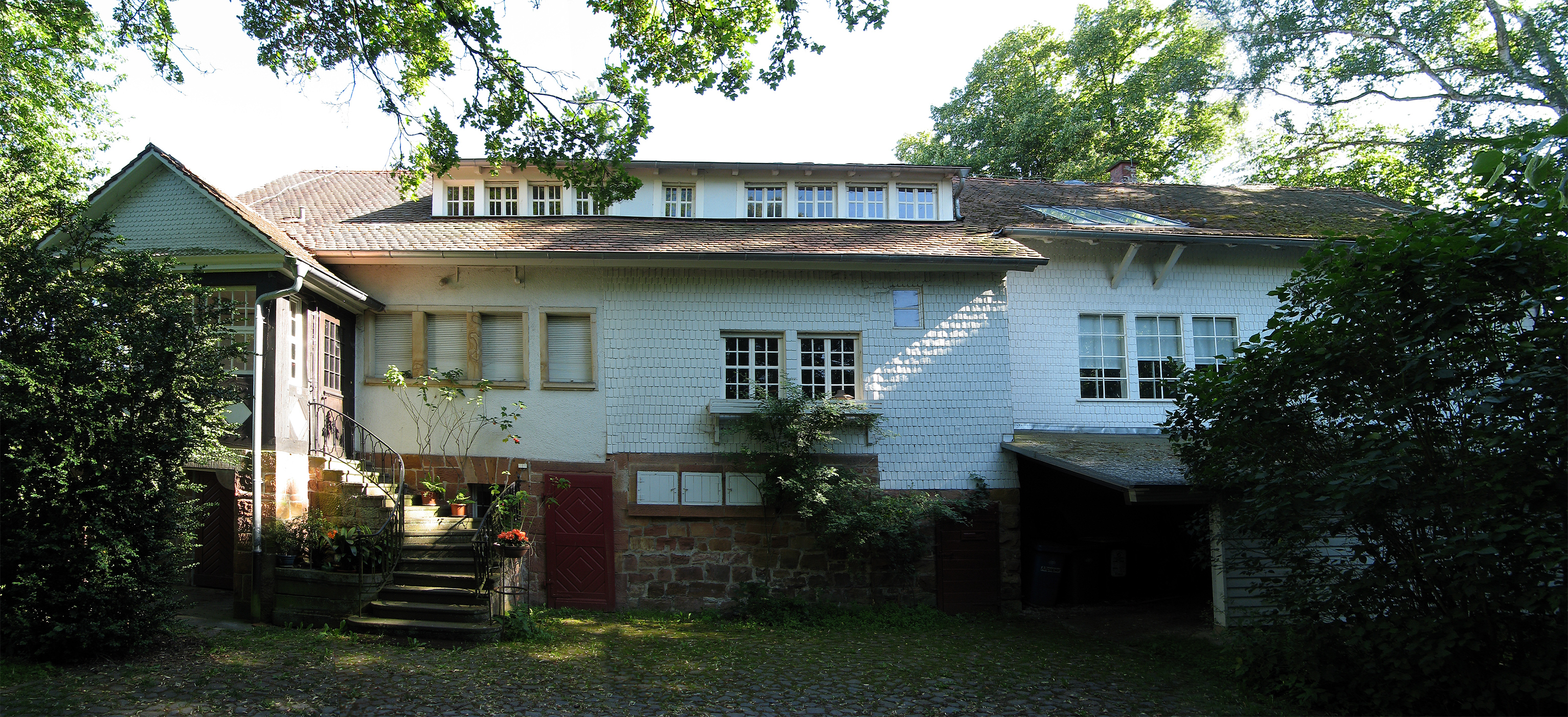 The residential house of Otto Ubbelohde at Goßfelden